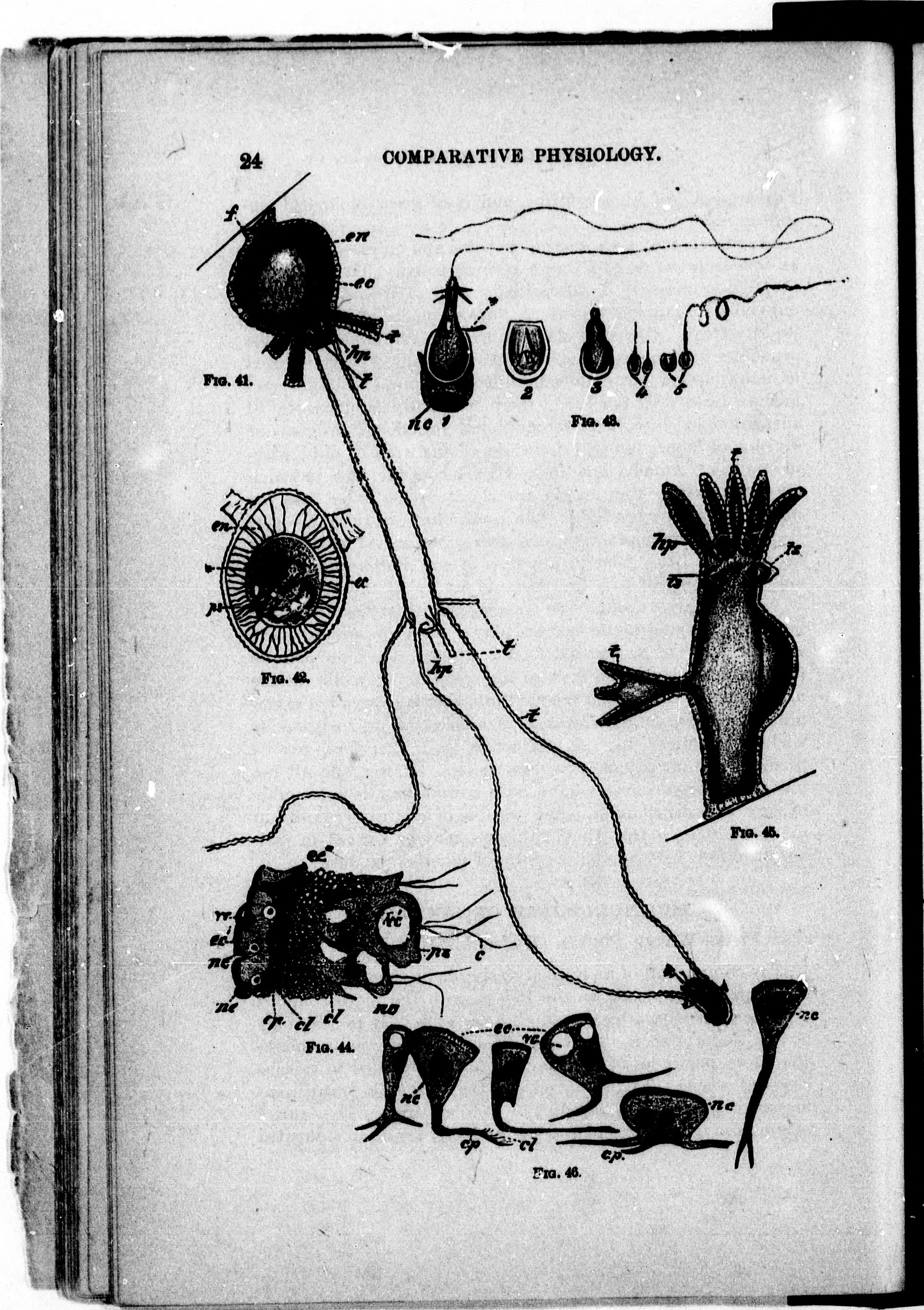 Title: A text-book of comparative physiology (microform) : for students and practitioners of comparative (veterinary) medicine Year: 1890 (1890s) Authors: Mills, Wesley, 1847-1915 Subjects: Physiology, Comparative; Veterinary physiology; Physiologie comparée; Physiologie vétérinaire Publisher: New York : D. Appleton; London : Caxton House Text Appearing Before Image: ' Text Appearing After Image: '